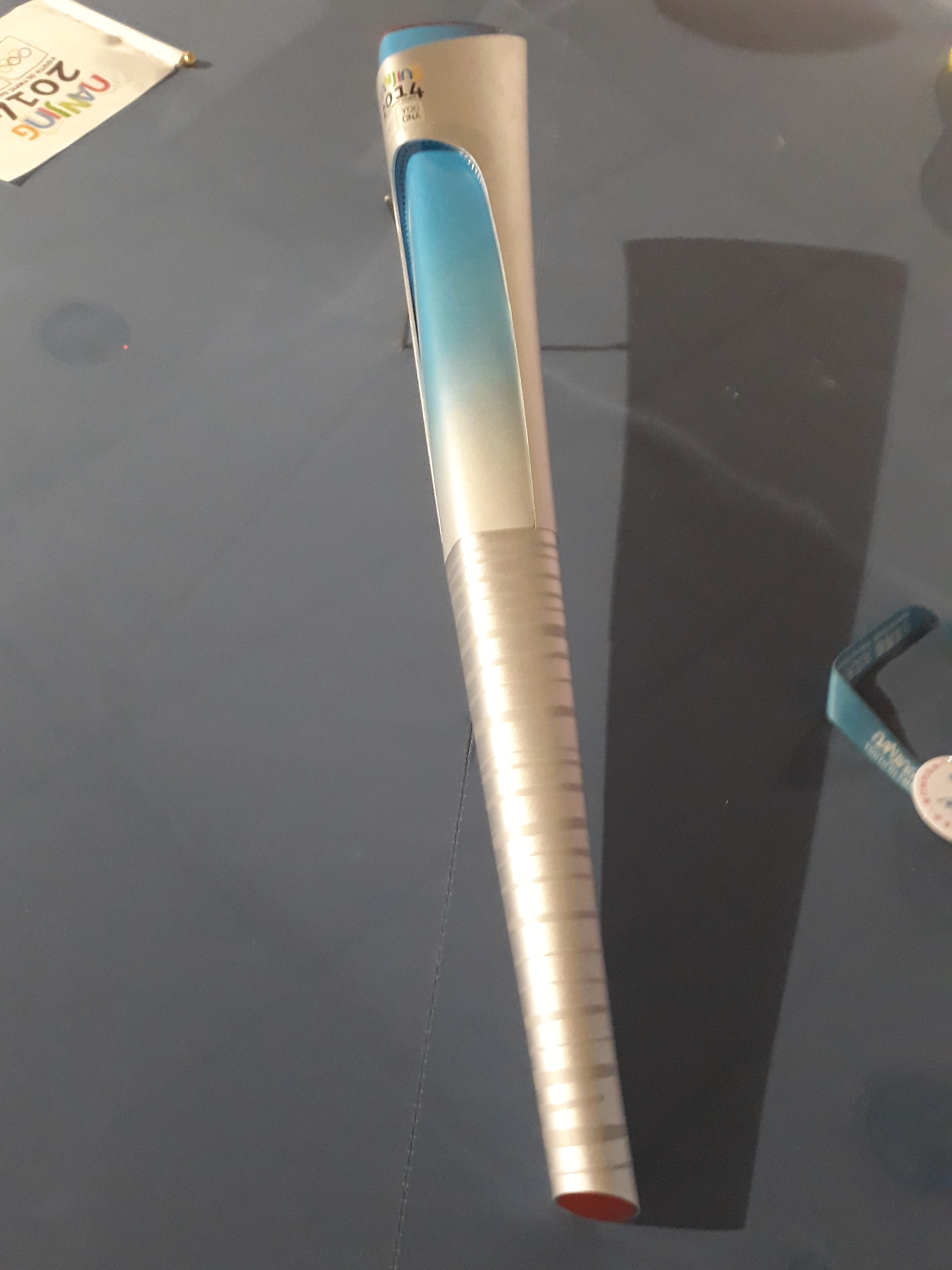 The Youth Olympic Torch of 2014 Summer Youth Olympics on display at Singapore Youth Olympic Museum